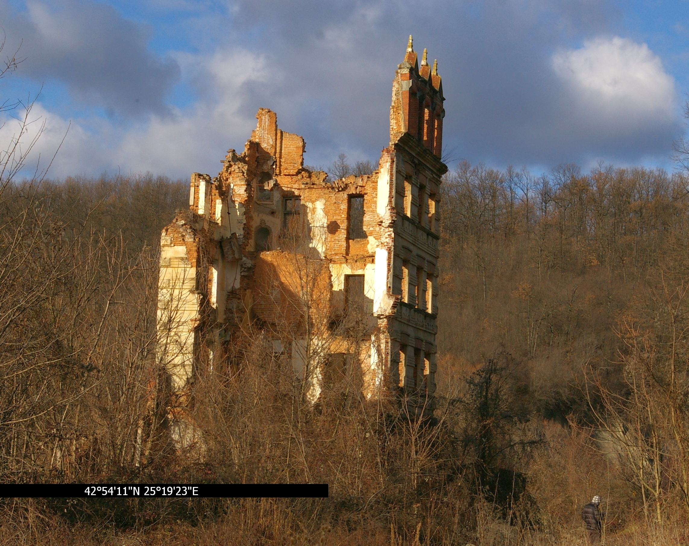 Ivan Hadjiberov building ruins plus gps coordinate.jpg